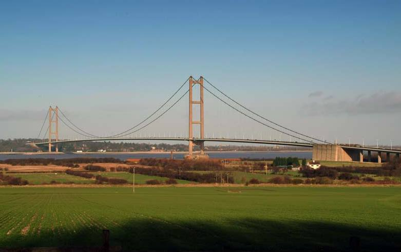 The Humber Bridge, taken from the South Bank (Western side - looking North East), Barton-upon-Humber, Lincolnshire, England. With this image the size of the bridge can be seen, the span between the two towers is nearly one mile. The large concrete anchors can be made out on the right hand side of the image.